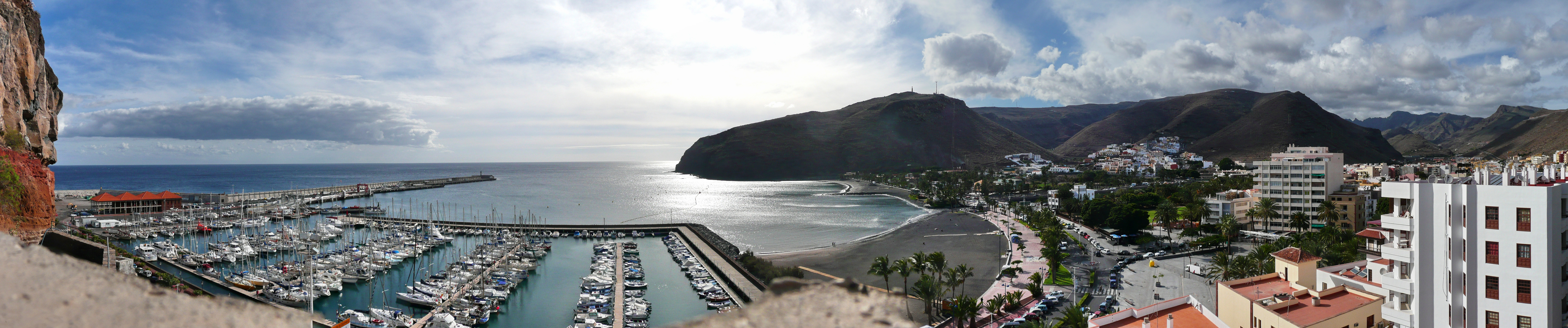 San Sebastián de La Gomera, harbour and beach